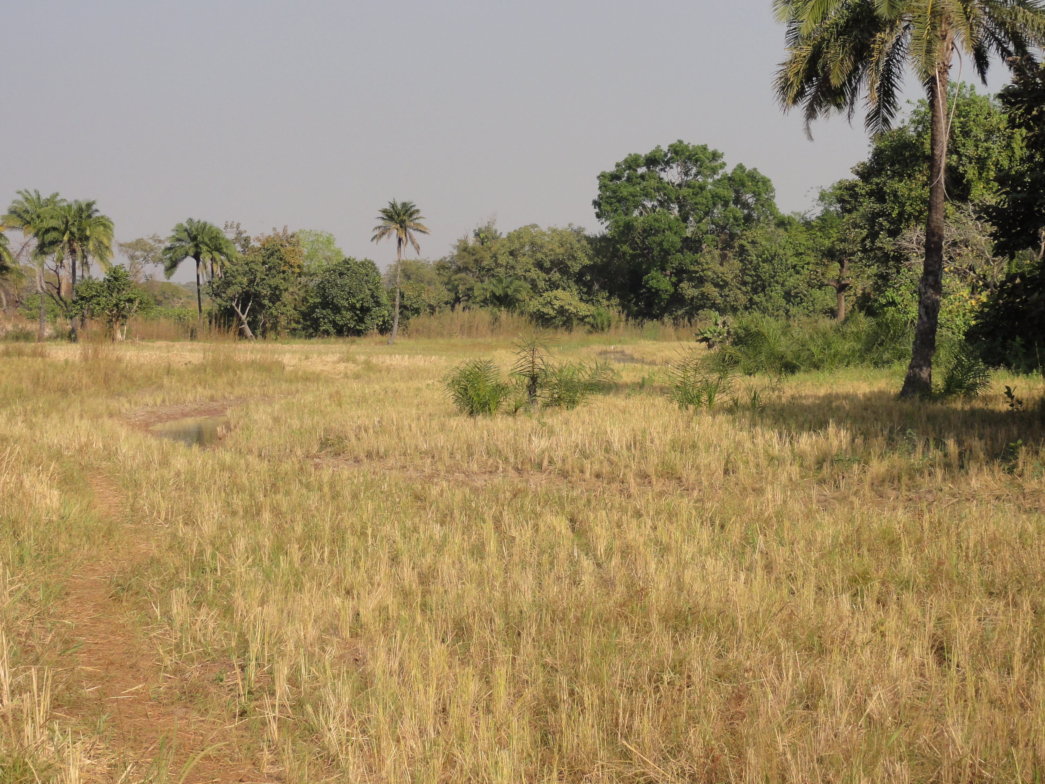 Rice cultivation in Benin